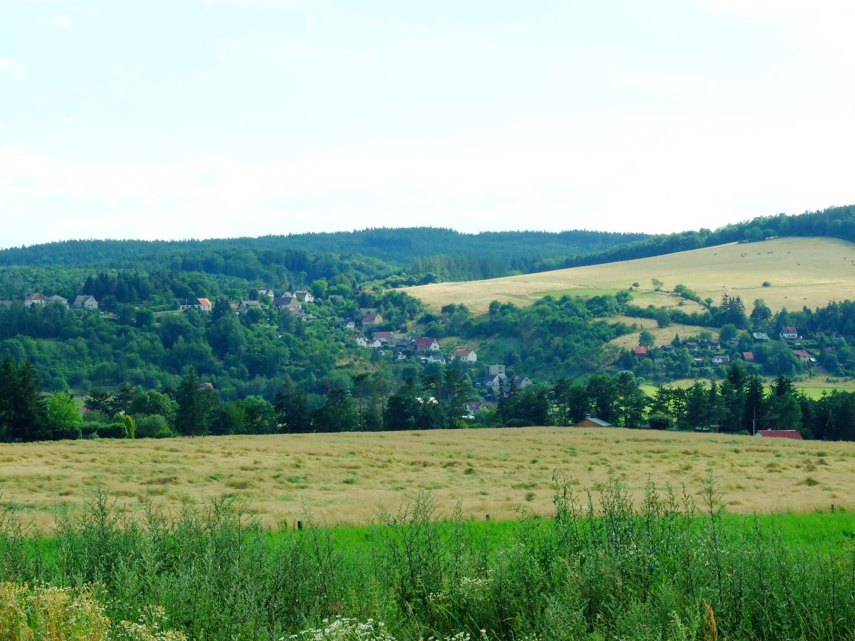 View on Račice village in Rakovník district, CZhelp